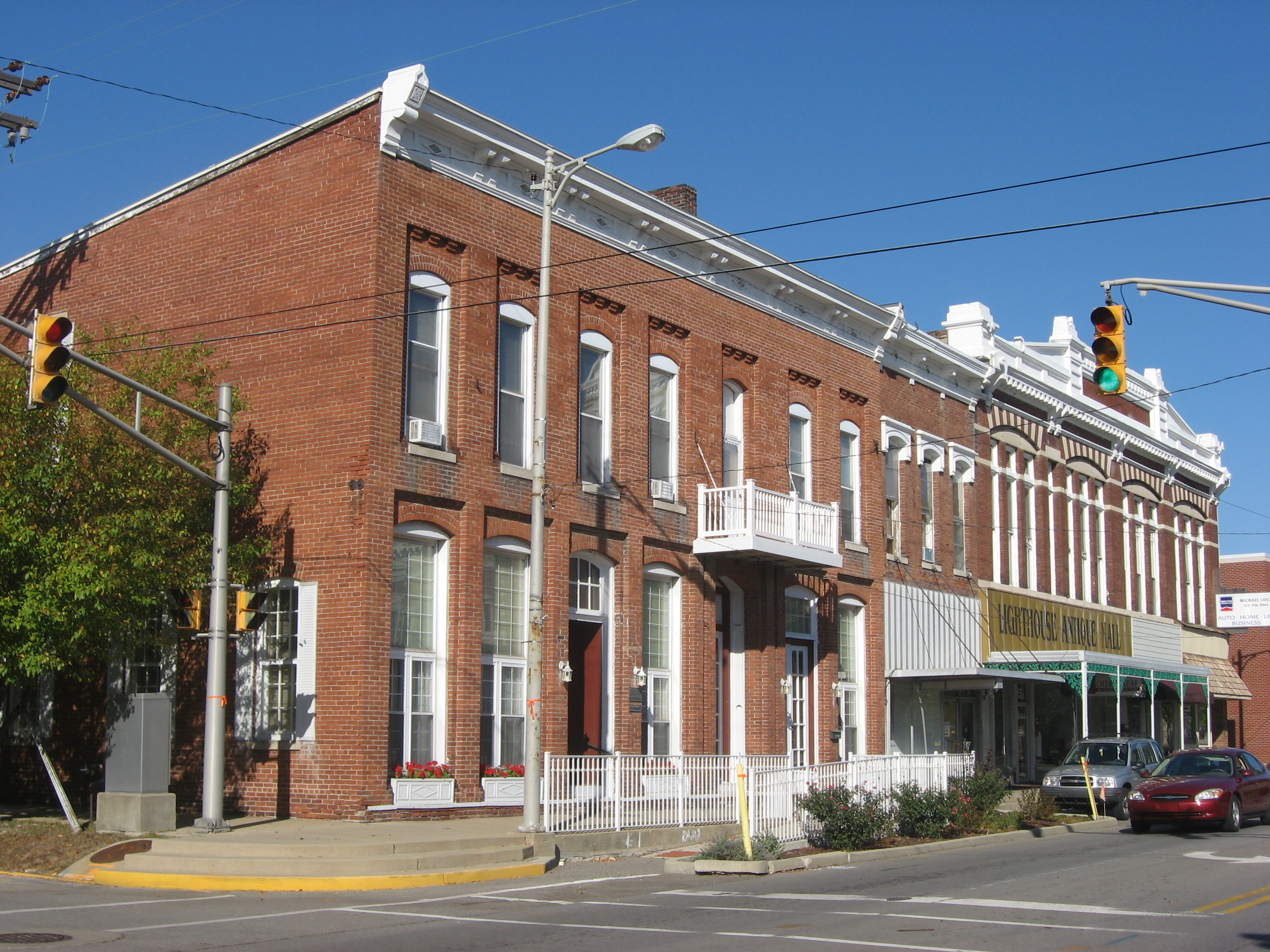 Buildings on the northeastern corner of the junction of Jefferson (State Road 44) and Jackson Streets in downtown Franklin, Indiana, United States. This block is part of the Franklin Commercial Historic District, a historic district that is listed on the National Register of Historic Places.